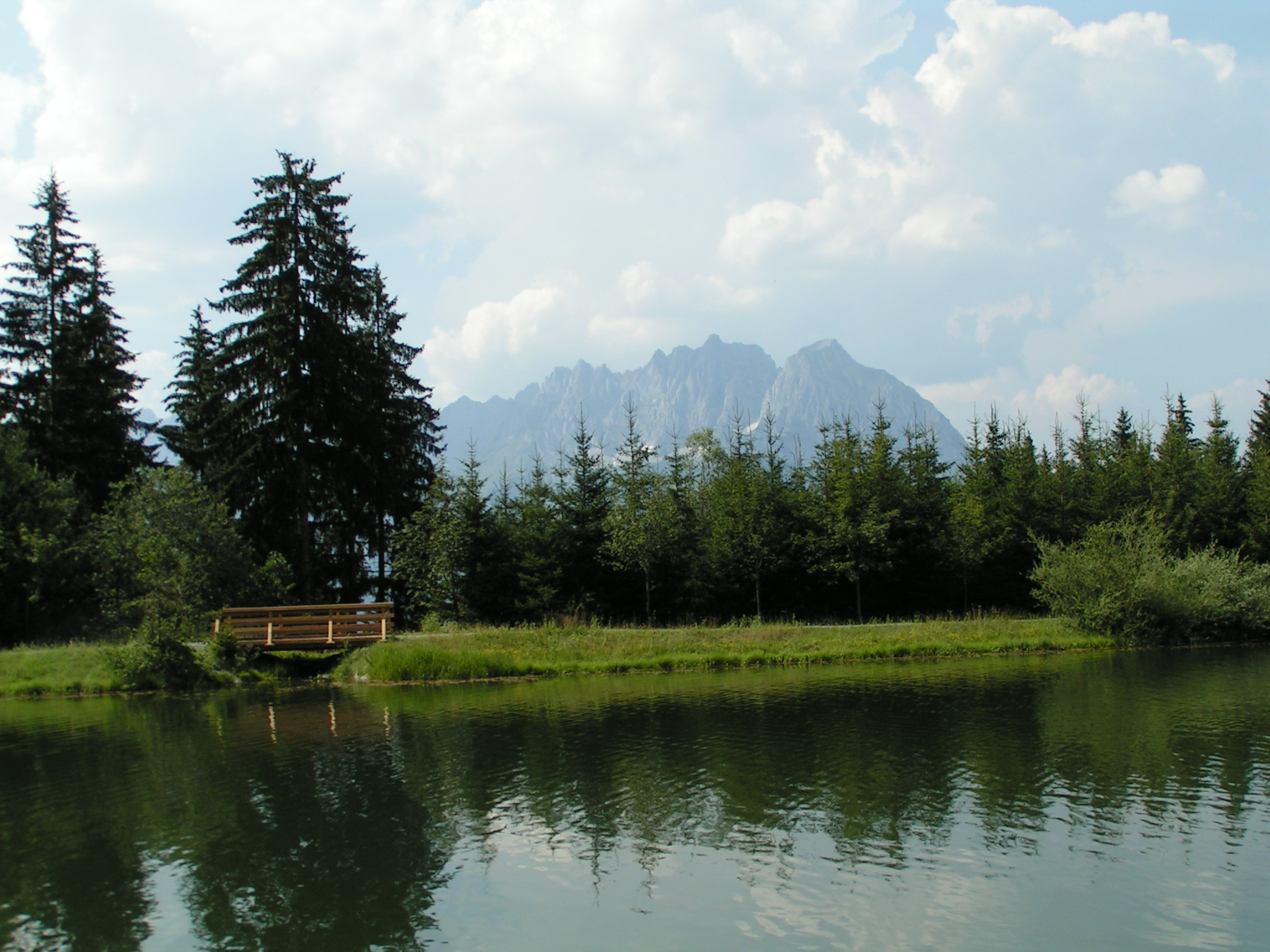 View from the Kitzbueheler Horn over a small lake to the Wilder Kaiser in the north, Tirol, Austria